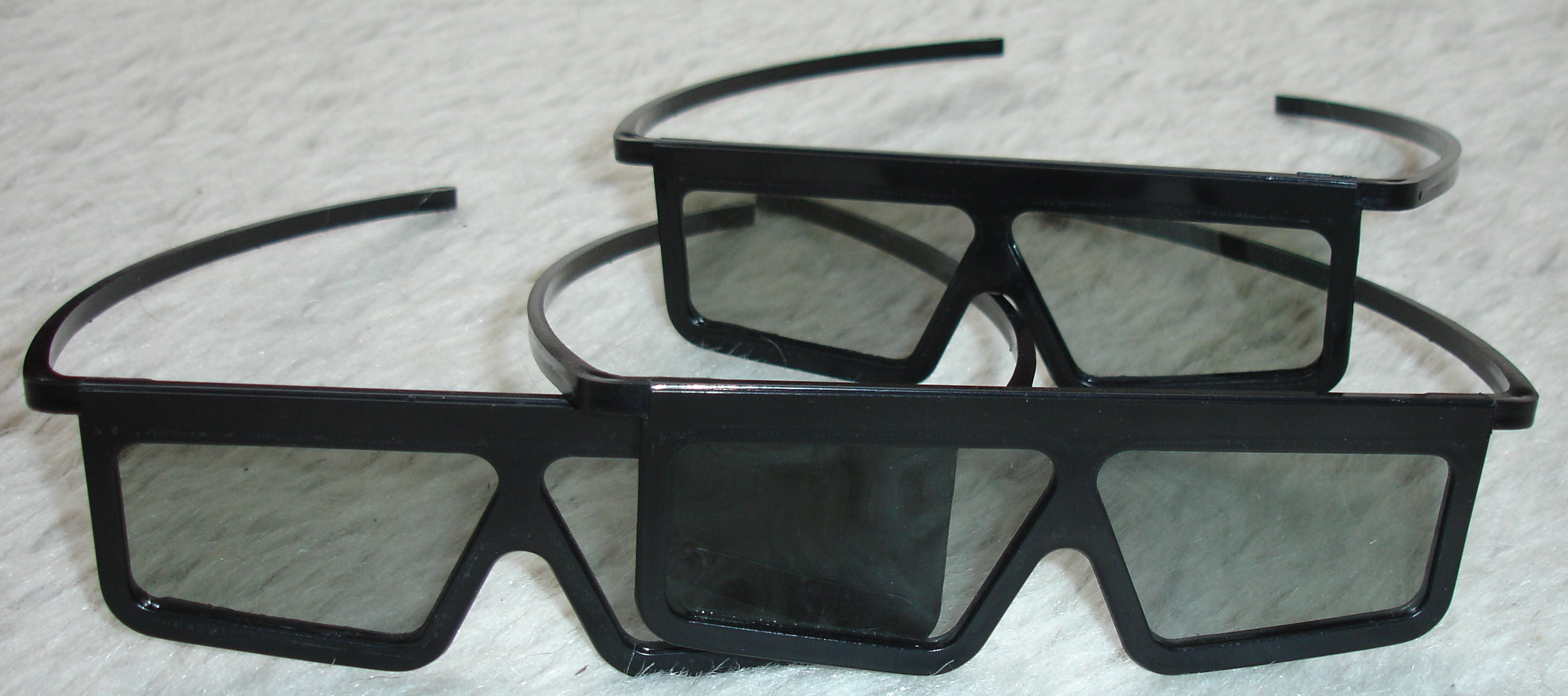 Polarised stereo glasses, demonstrating that two lenses on top of each other are black